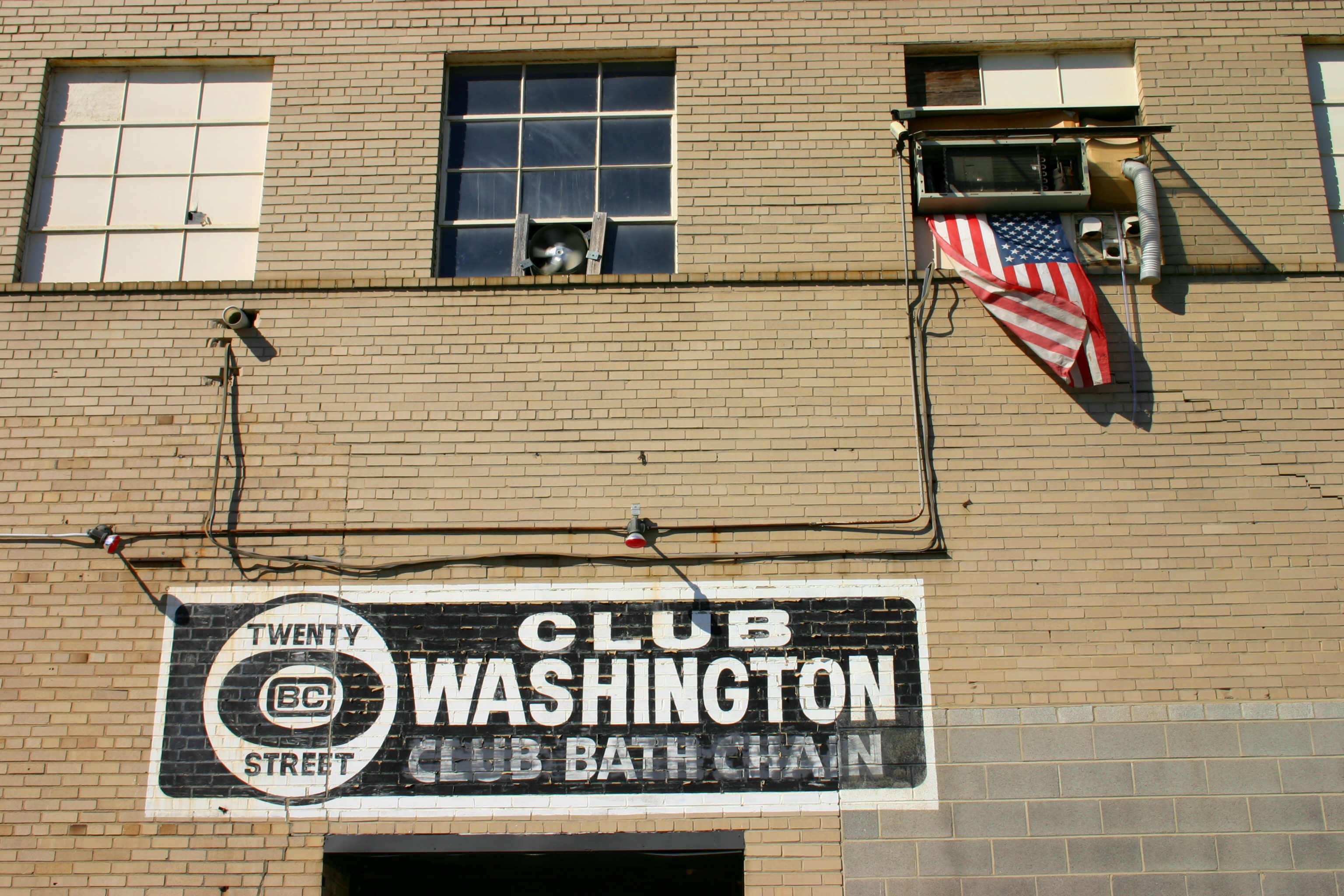 Club Washington, SE Washington DC. This was a gay bathhouse, part of the Club Baths chain.